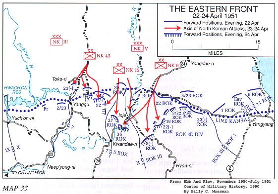 Map of the Eastern Front during the Chinese Spring Offensive, Korea, April 1951 Category:Korean War